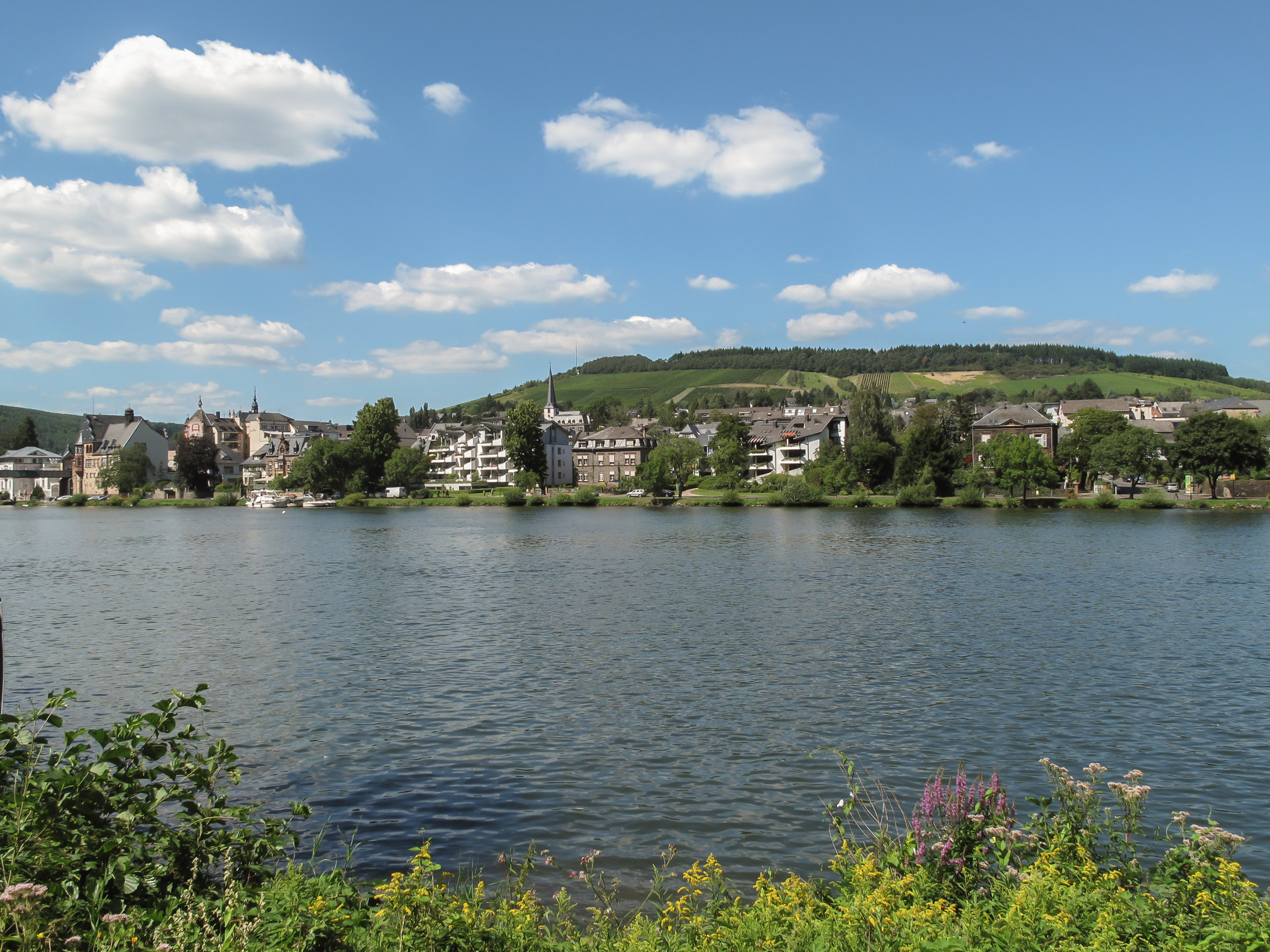 Traben ,view to the the town